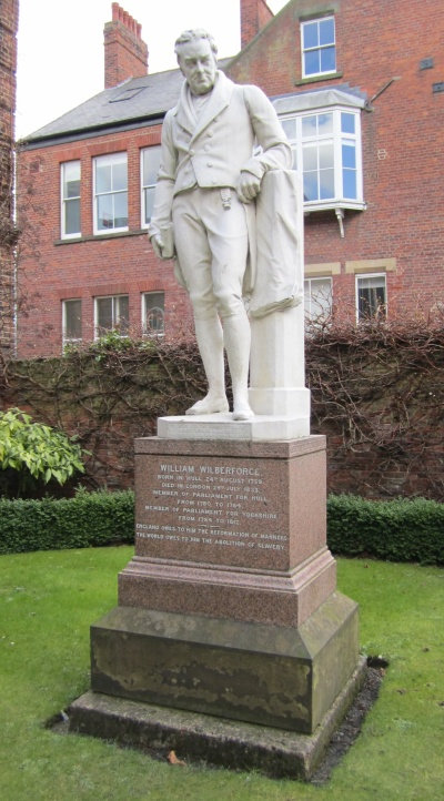 Statue of William Wilberforce in Garden of Wilberforce House